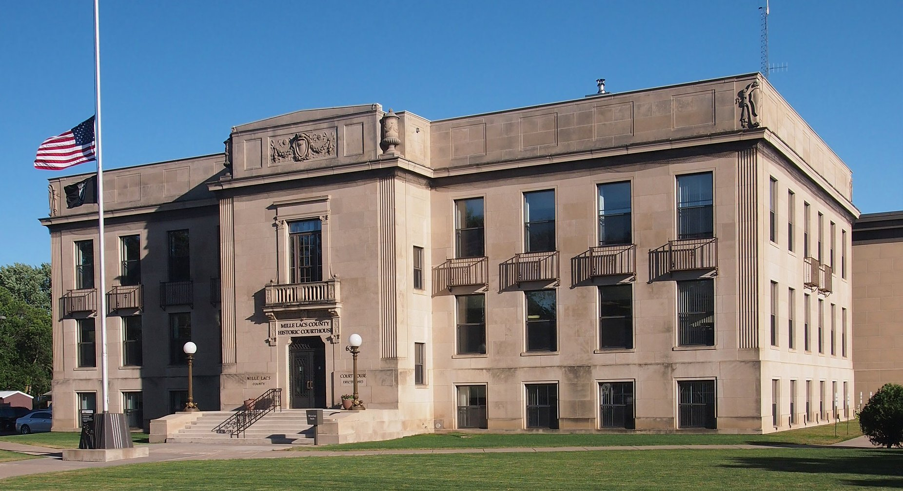 Mille Lacs County Courthouse, 635 2nd St SE, Milaca, Minnesota, USA. Viewed from the northwest.